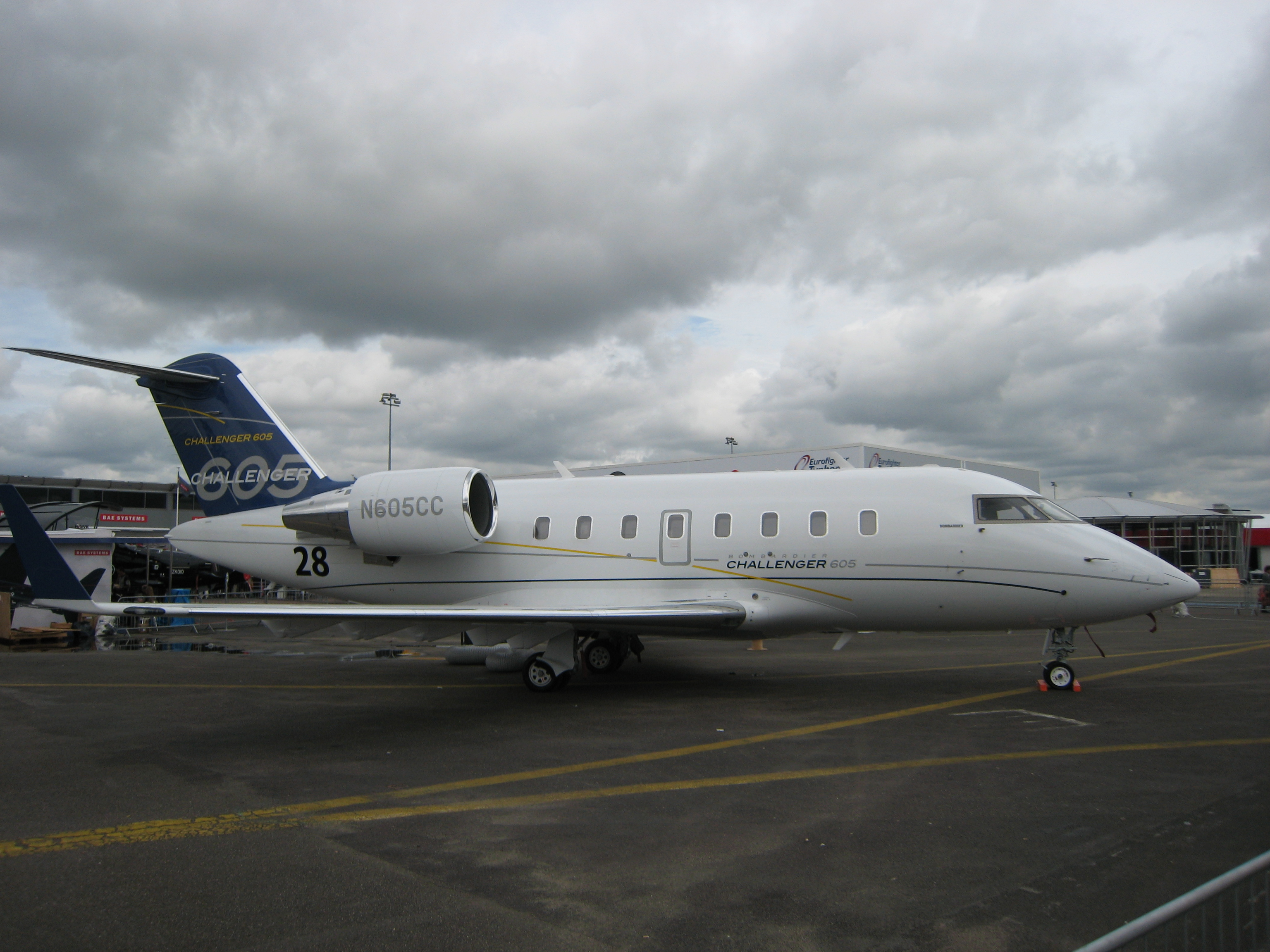 Bombardier Challenger 605 at Paris Air Show 2007